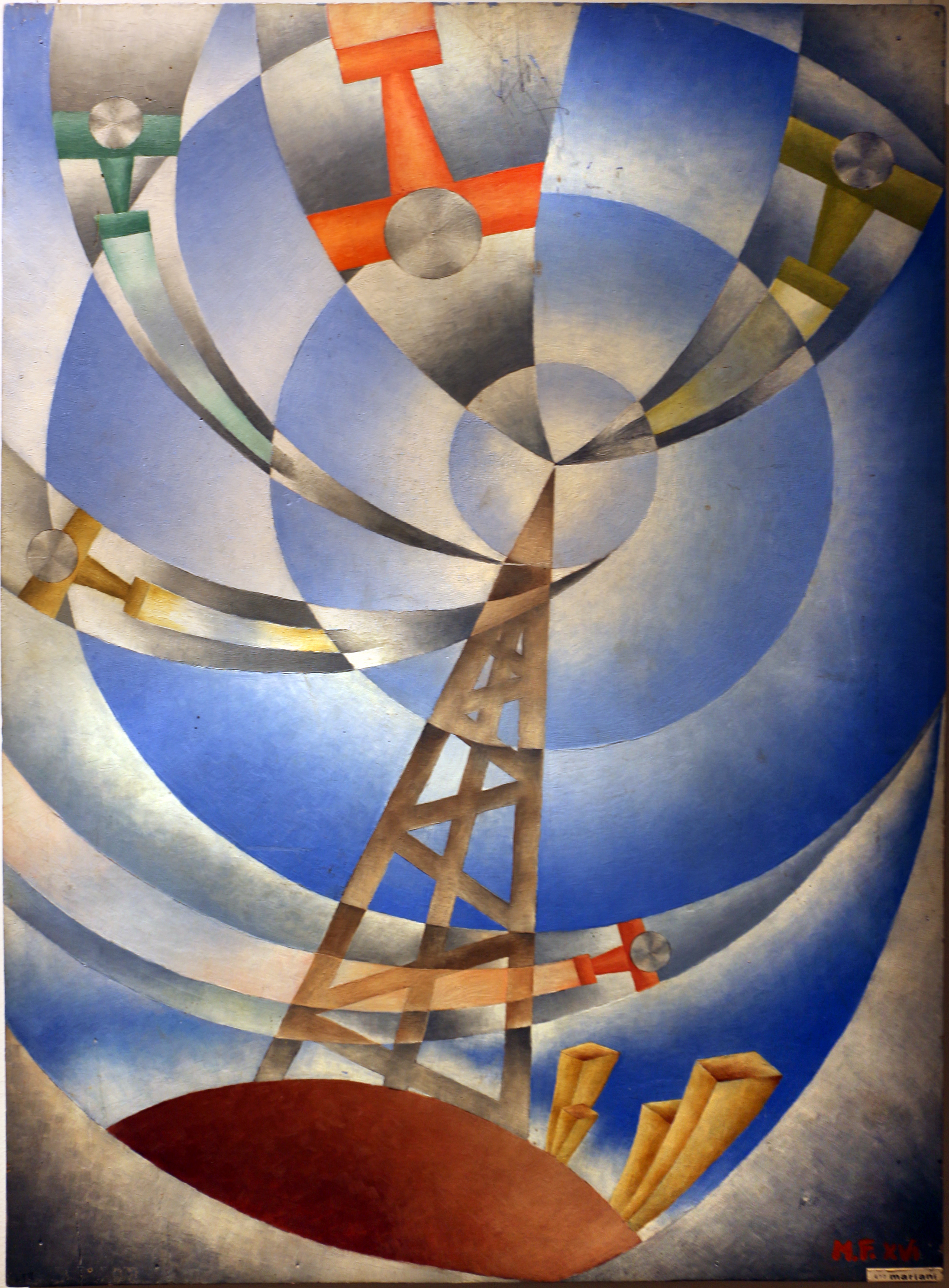 Palazzo Buonaccorsi (Macerata) - Modern Art